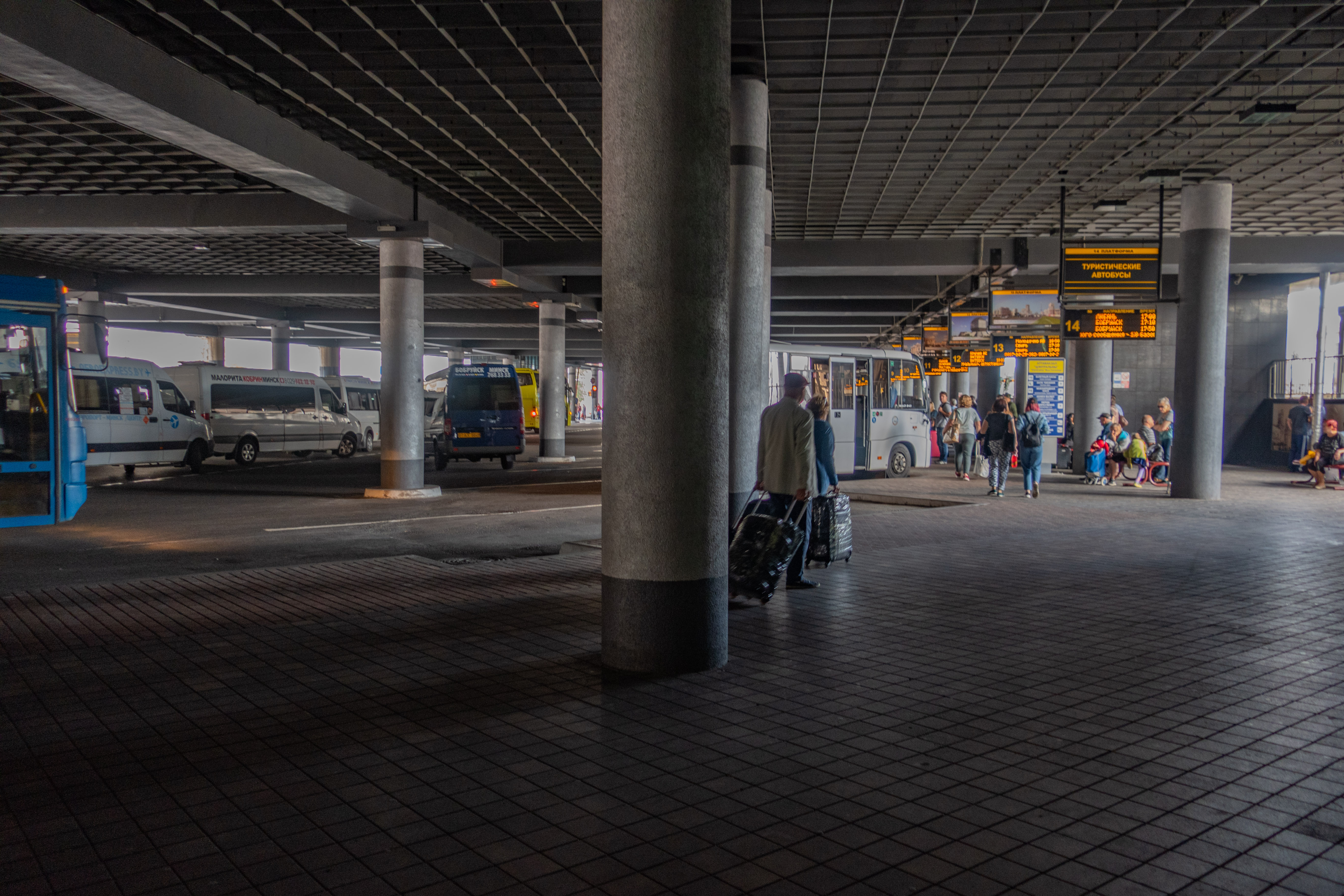 "Centralny" bus station after reconstruction. Minsk, Belarus